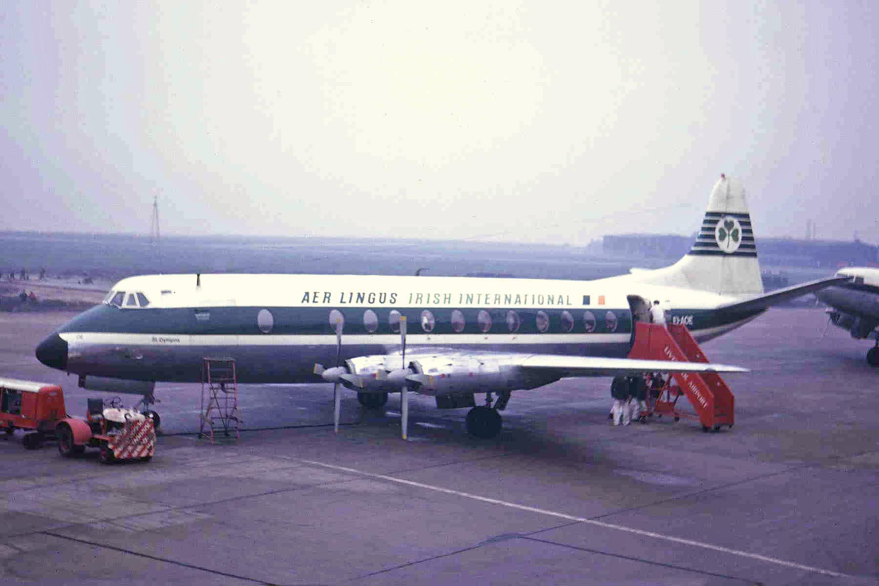 Vickers Viscount (V803) aircraft in Aer Lingus livery with registration EI-AOE at Liverpool Airport (LPL) on 16 March 1966